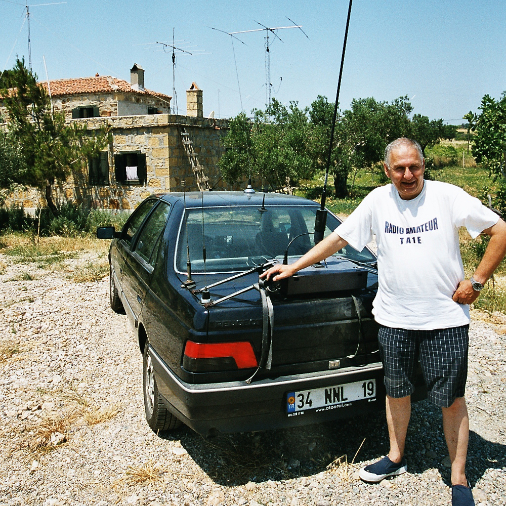 Amateur Radio mobile operation. Aziz, call sign TA1E, of Istanbul standing by his car equipped with HF and VHF radios and antennas.